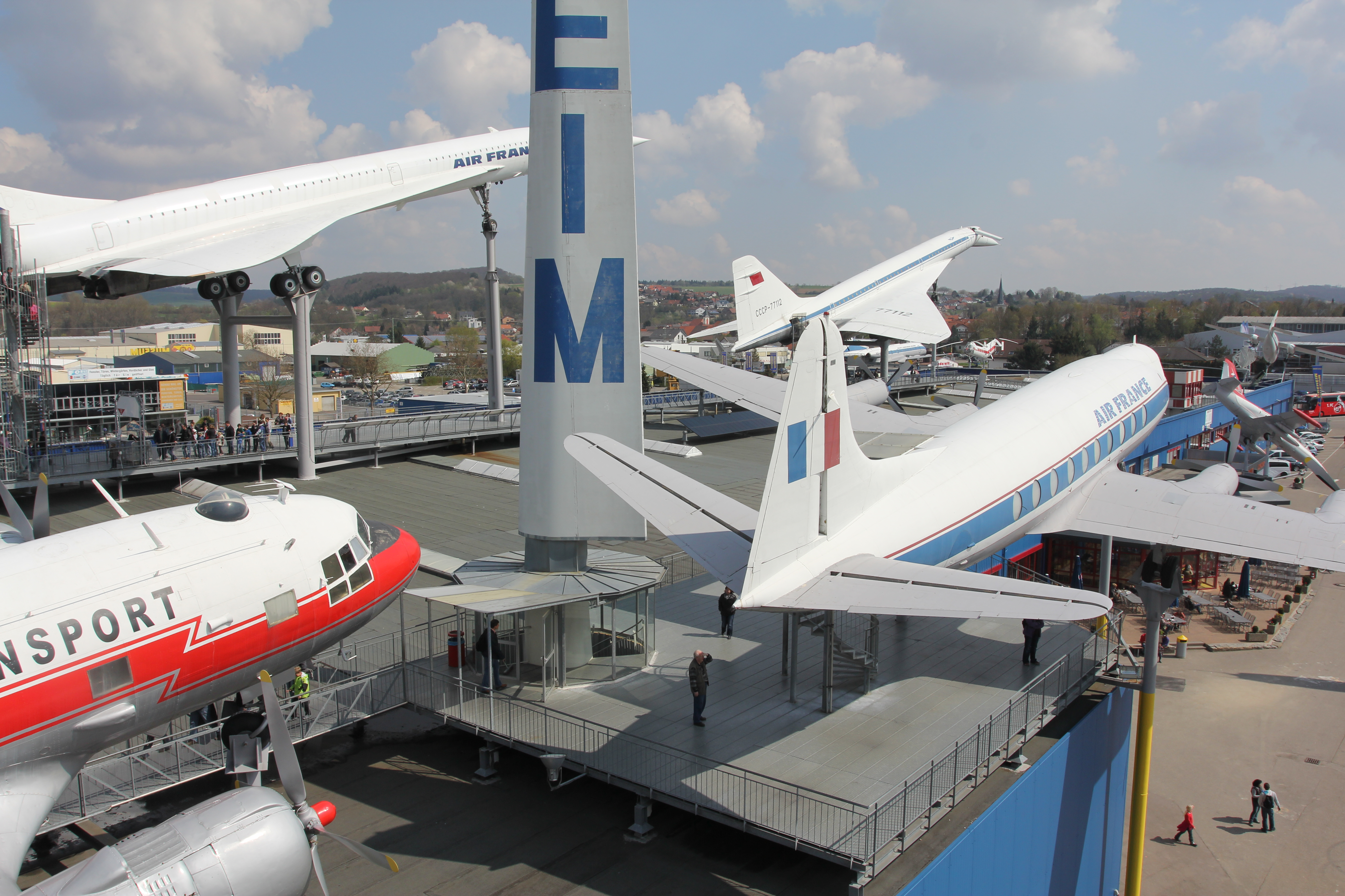 Location